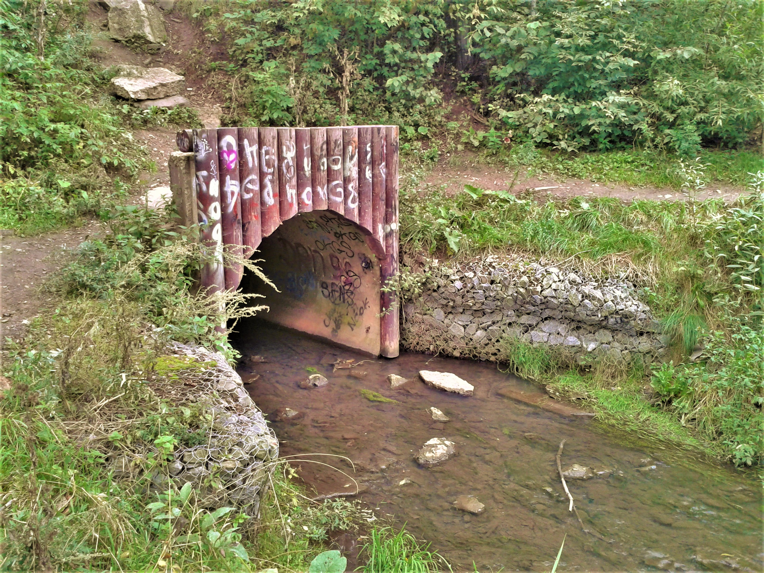 Zverinozhka (or Zderinozhka) river in Moscow, Russia